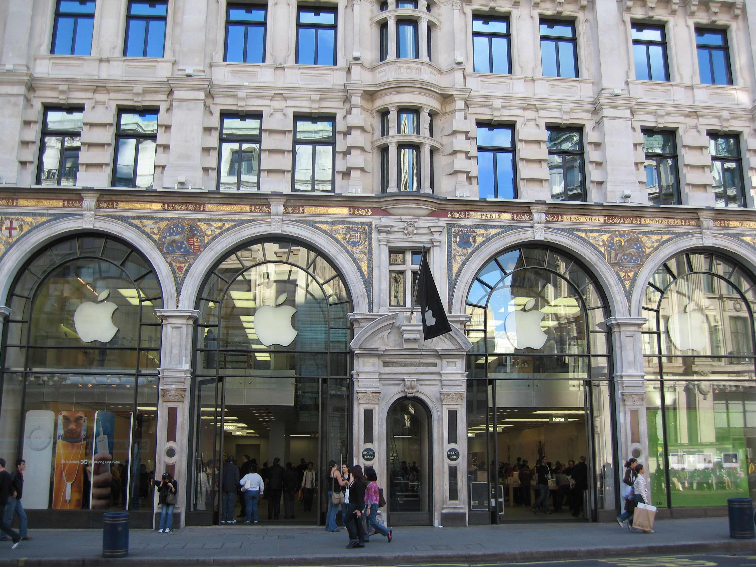 The Regent Street Apple Store in London.